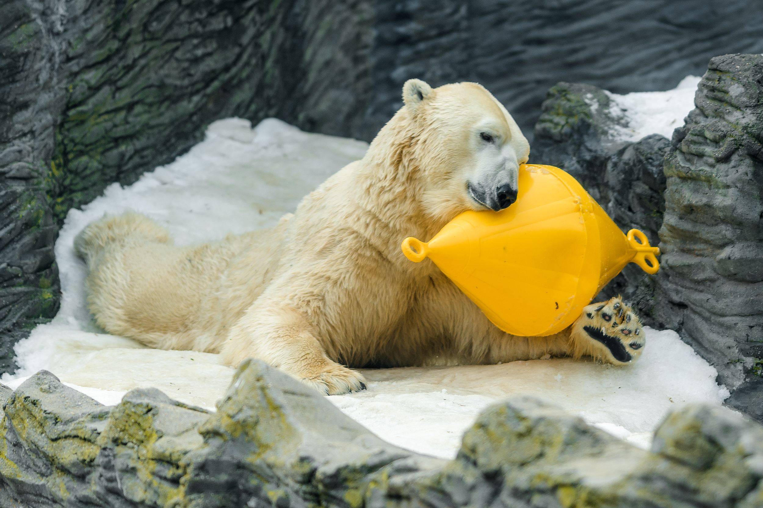 Polar bear, enrichment, Prague Zoo